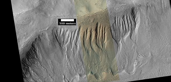 Gullies in an unnamed crater (16 km diameter) near the east rim of Netwon Crater, as seen by hirise under HiWish program. (41.1 S, 154.0 W)